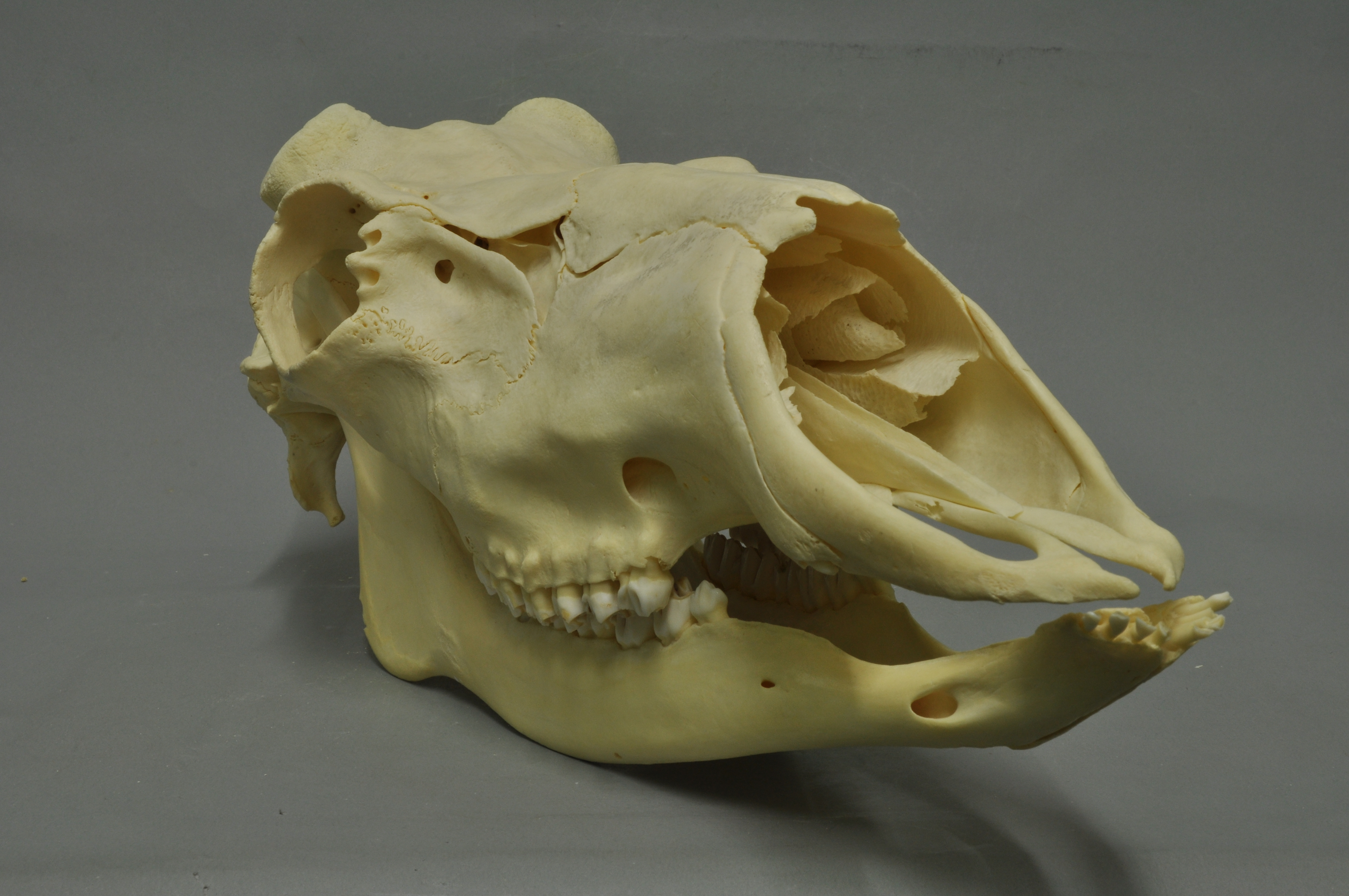 reindeer Rangifer tarandus 01 , skull, Coll. Museum Wiesbaden